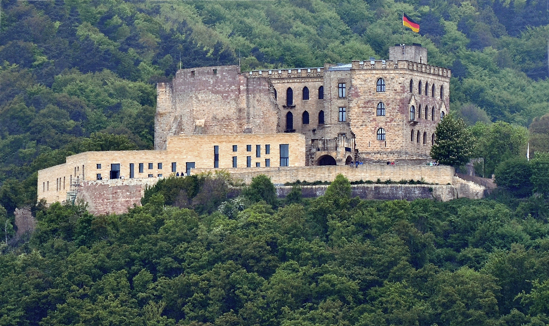 Hambach Castle